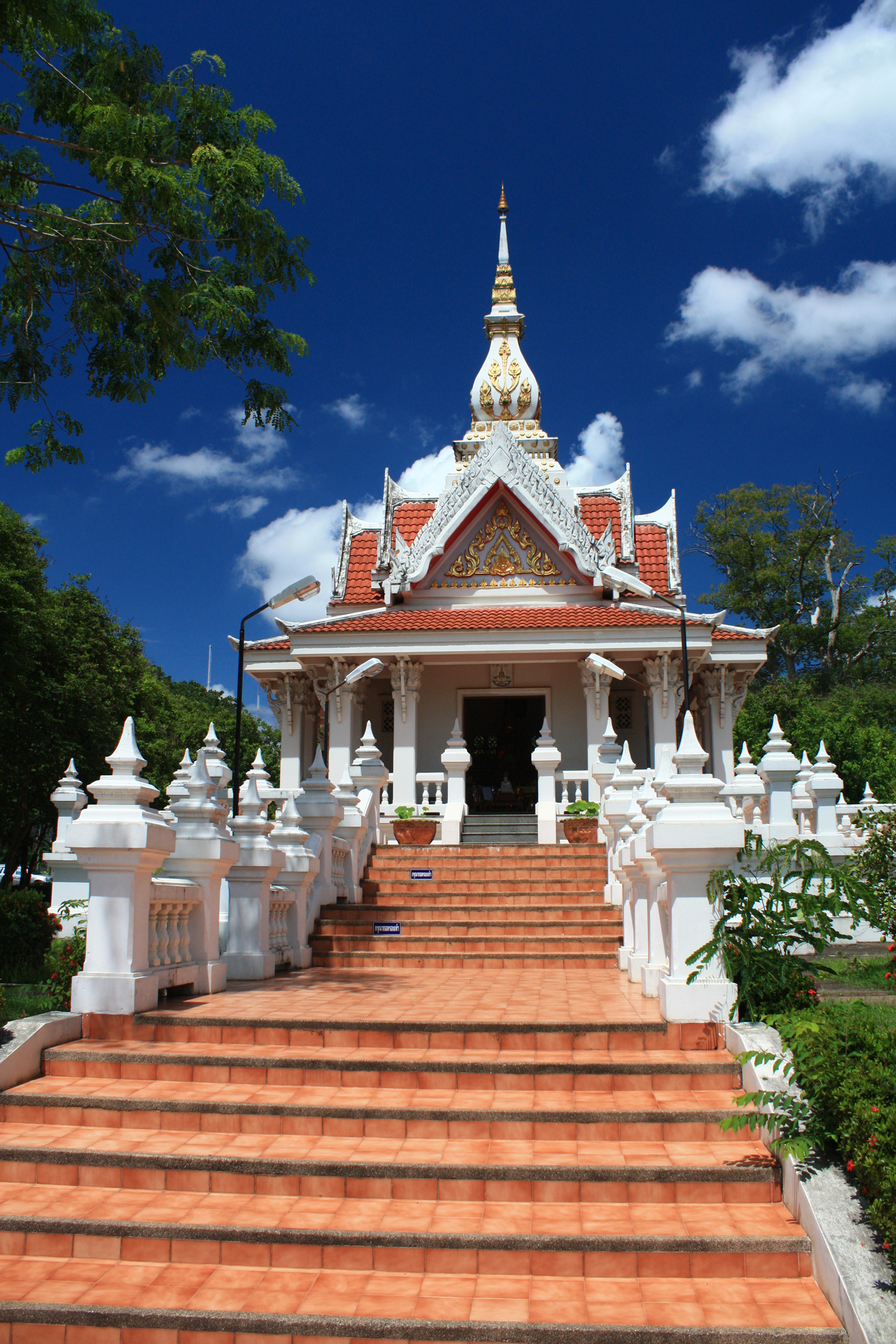 Sao Lak Mueang Nakhon Phanom (City Pillar Shrine)